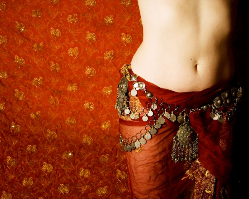 This one, a collaboration with Frank Roberts, went to David Lawson, Connecticut UNIX sys-admin for a company that hosts CMS software for newspapers.